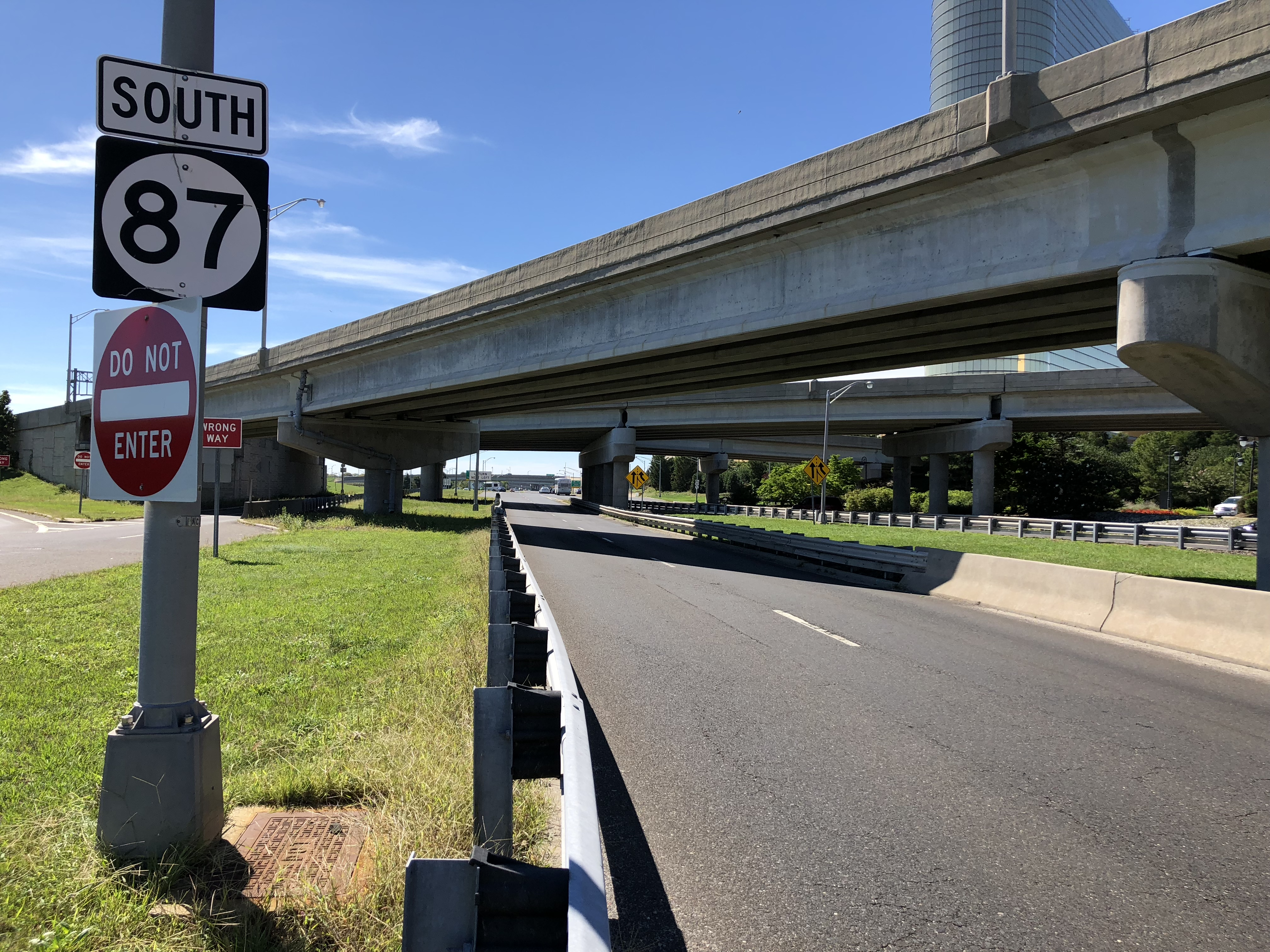 View south along New Jersey State Route 87 (Huron Avenue) just south of New Jersey State Route 187 (Brigantine Boulevard) in Atlantic City, Atlantic County, New Jersey